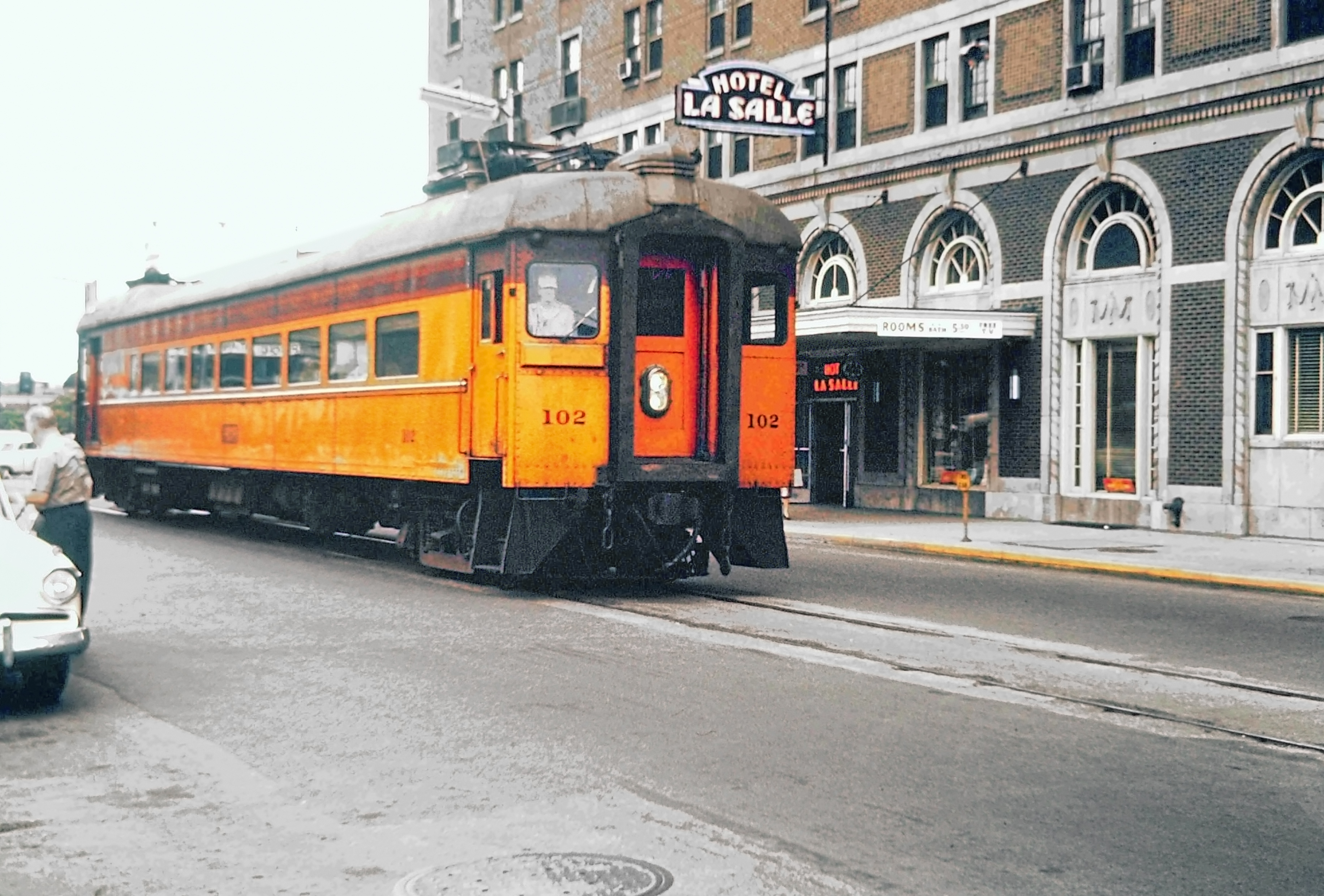 Chicago South Shore and South Bend interurban #102 street running in South Bend, Indiana.